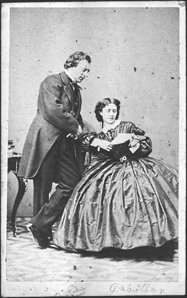 The actors Zerline Gabillon (1835-1892) and Ludwig Gabillon (1828-1896)